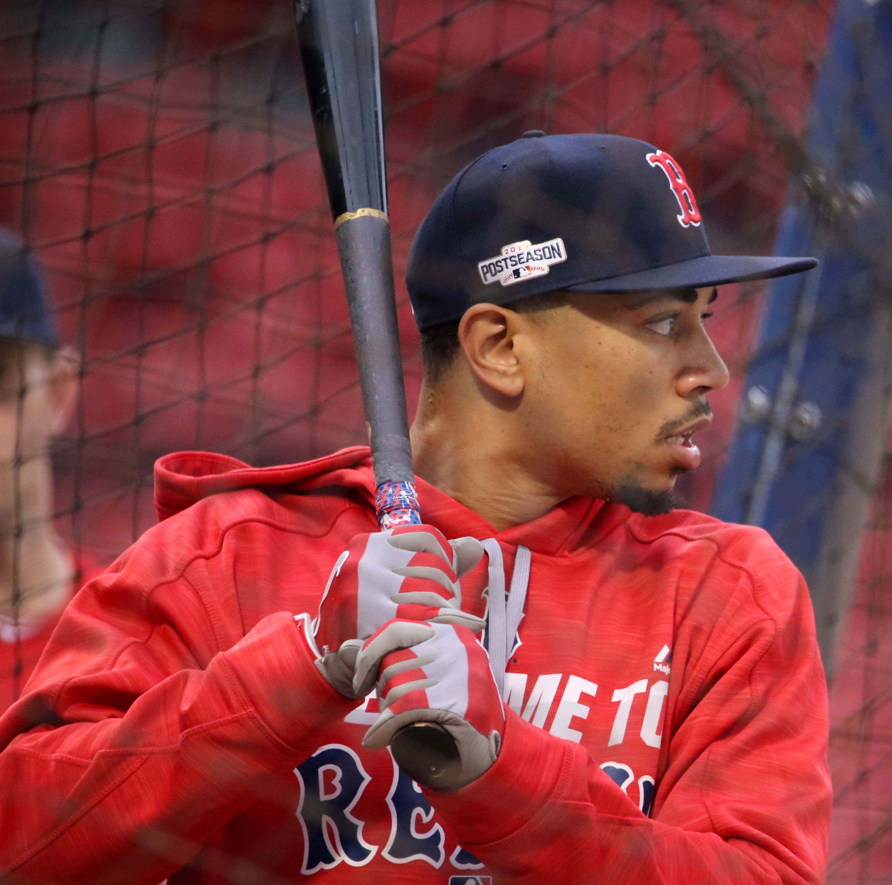 Red Sox outfielder Mookie Betts takes batting practice during Saturday's workout at Fenway Park.